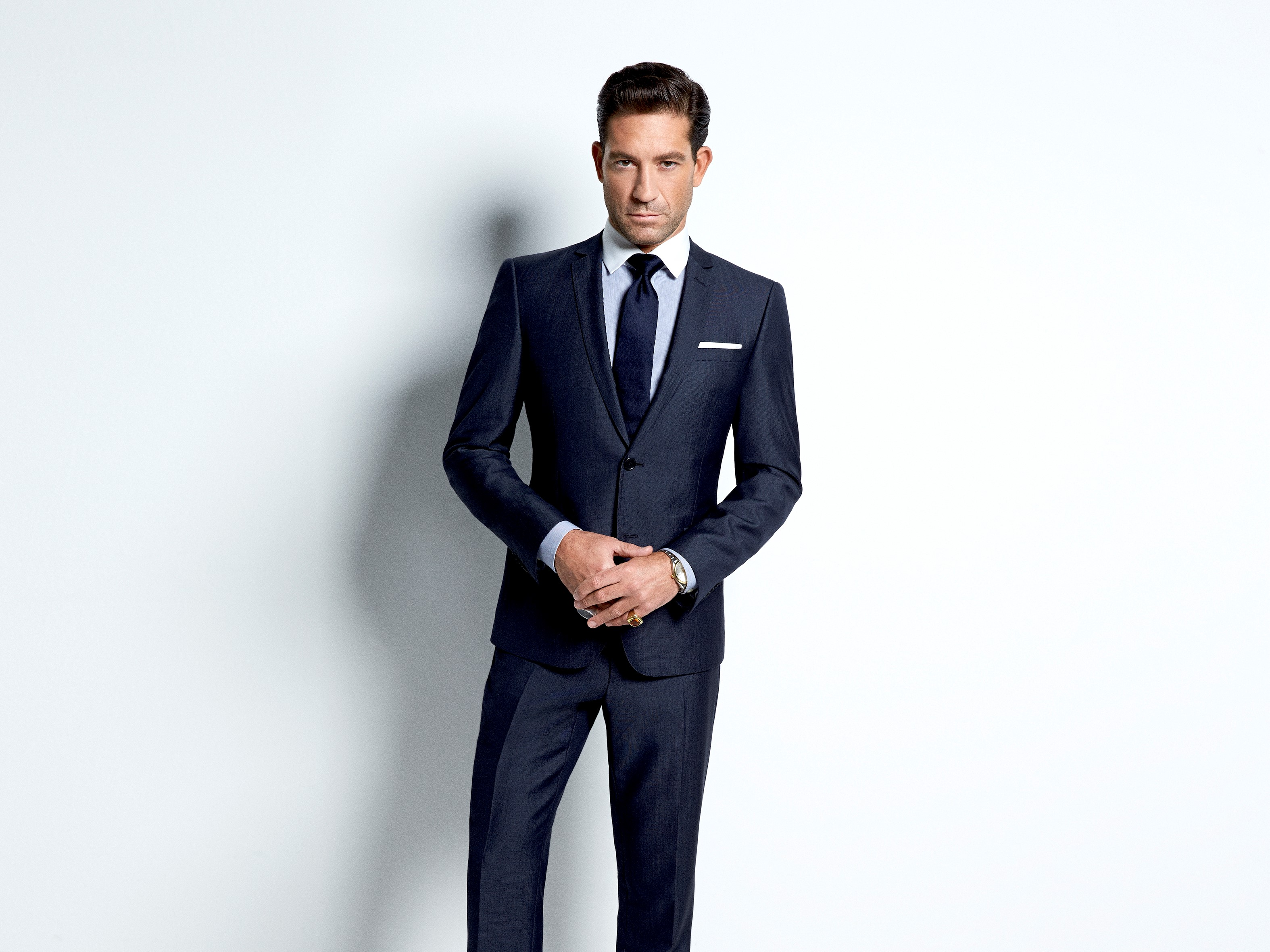 Deon St.Mor